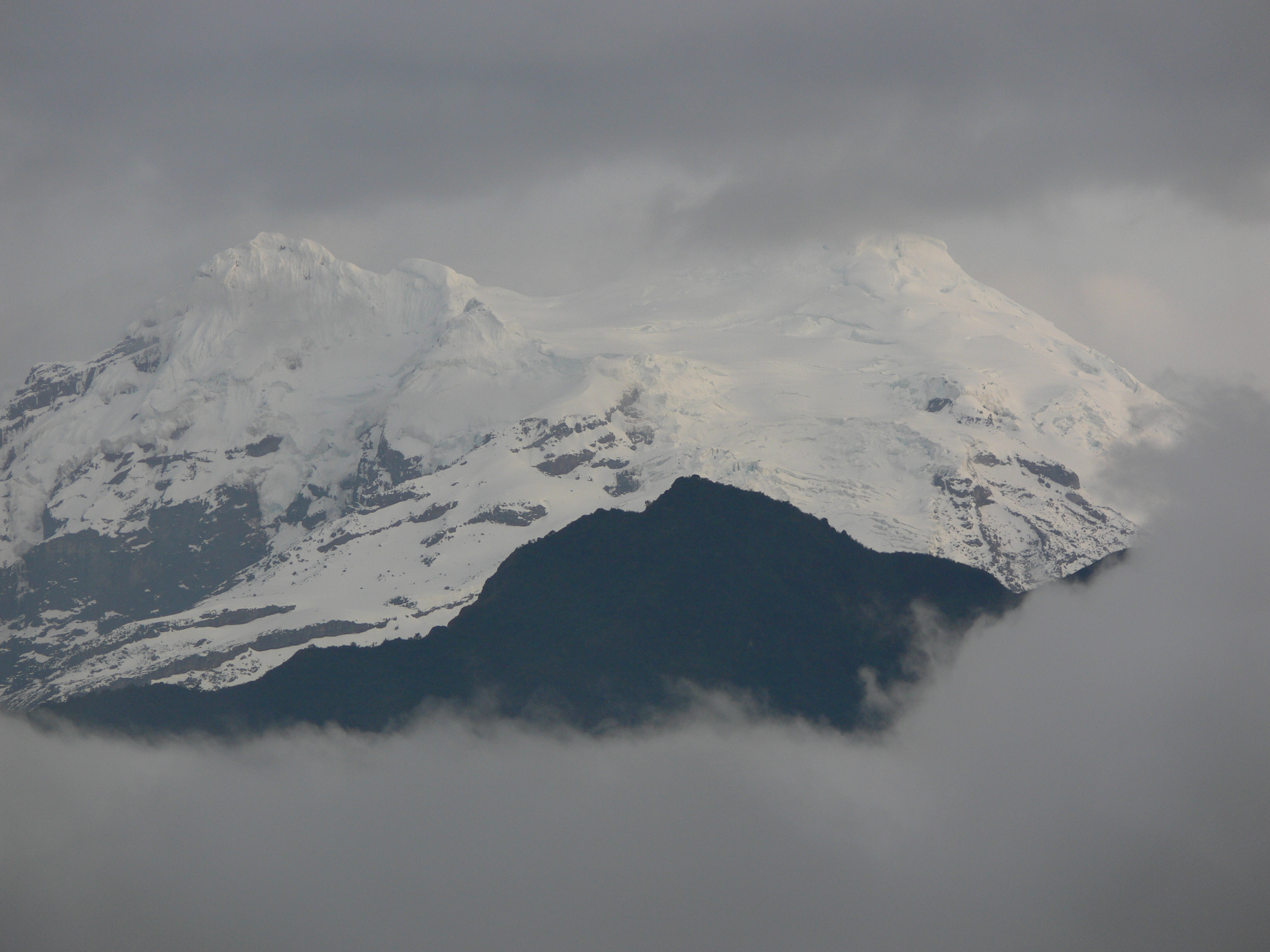 Antisana is a stratovolcano of the northern Andes, in Ecuador. It is the fourth highest volcano in Ecuador, at 5,704 metres (18,714 ft), and is located 50 kilometres (31 mi) SE of the capital city of Quito.